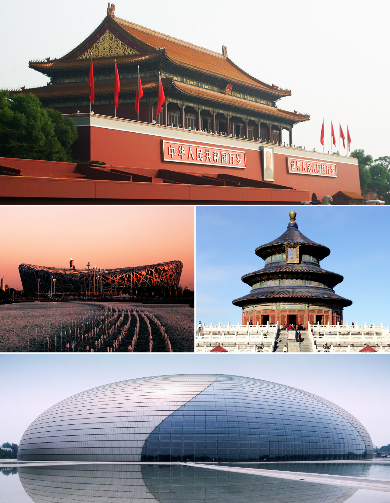 Montage of various Beijing images